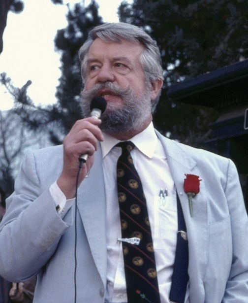 Former Portland, Oregon, mayor Bud Clark at a 1988 event.